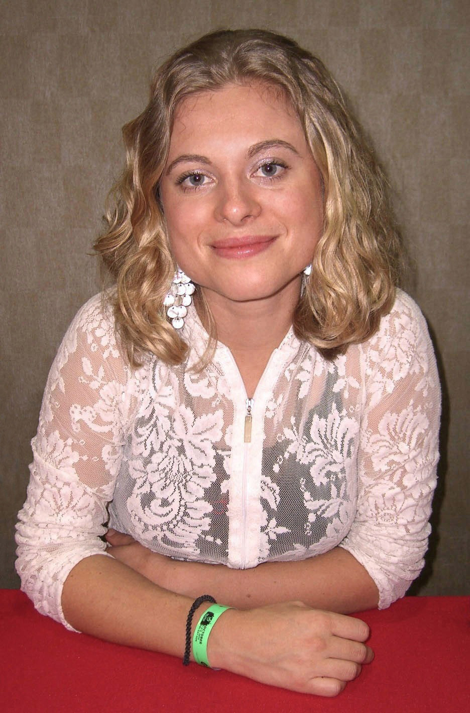 Actress Bonnie Piesse at the Big Apple Convention in Manhattan, October 2, 2010. Photo by Luigi Novi. This photo may be used, modified and published for any purpose, only if the photographer is visibly credited in each instance in which it is used. (See licensing information below.) Publication of this photo without proper attribution constitute copyright infringement. For more information on my photos, you can contact me here.